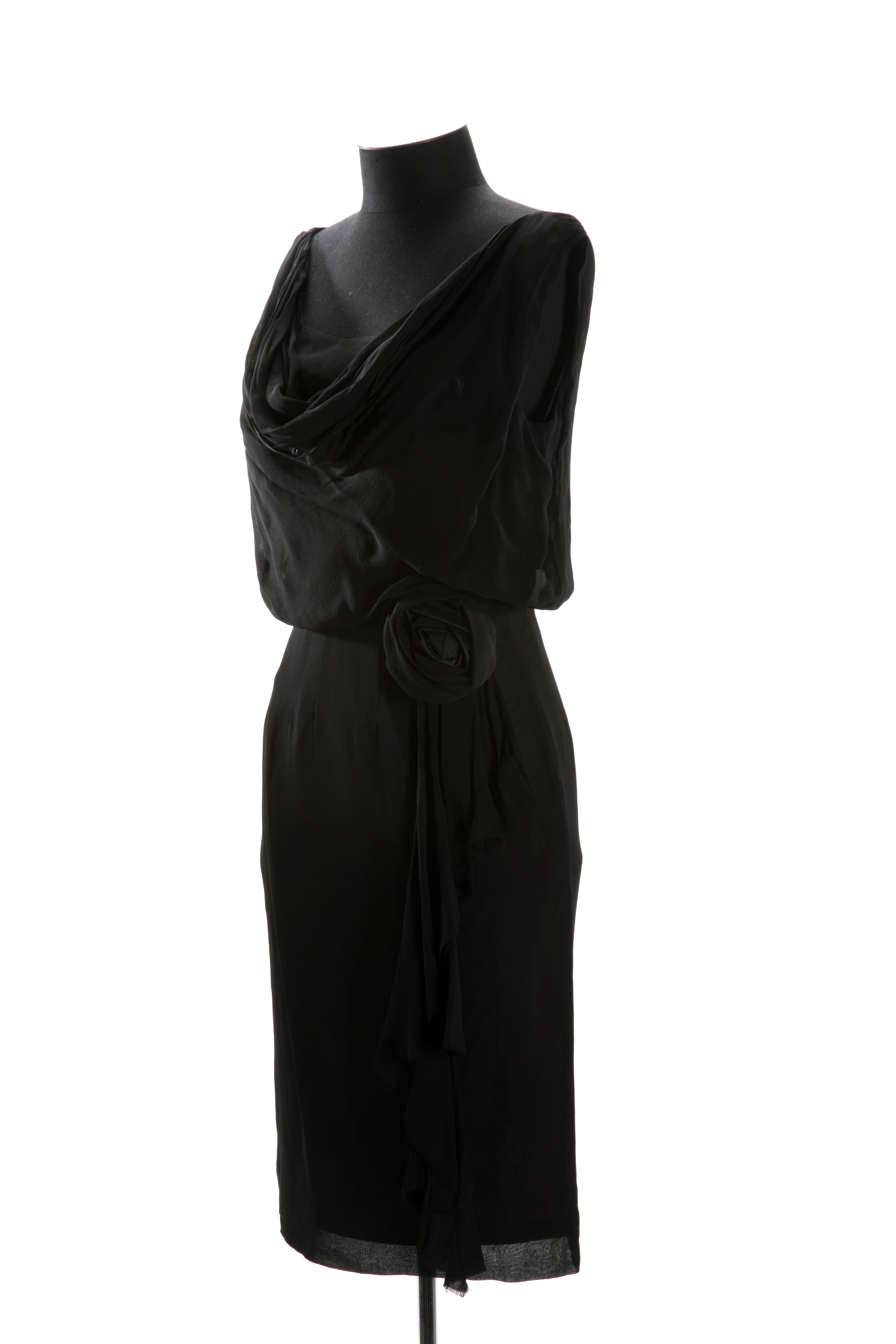 Black silk chiffon dinner dress by Emma Knuckey with black silk lining, low cowl neckline andhand-made rose trim at waist